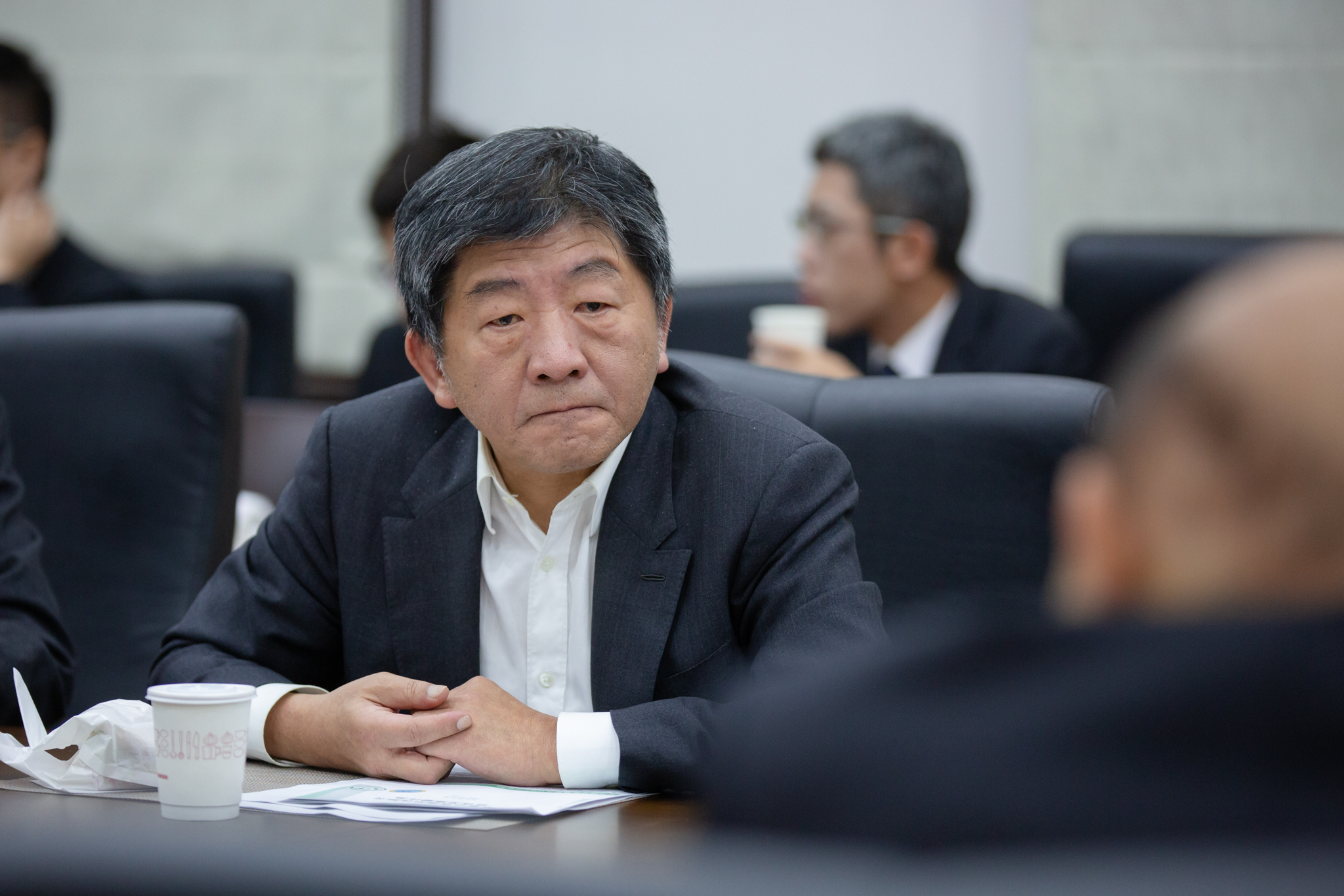 Official Photo by Wang Yu Ching / Office of the President